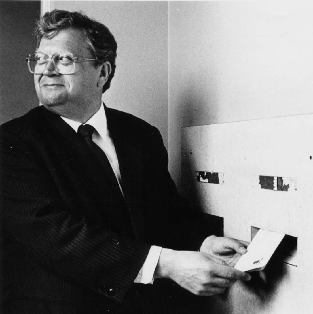 Prime Minister David Lange posts a letter, at the opening of the new Foxton Post Office, 1980’s